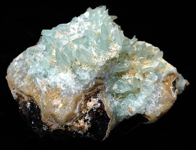 Phosphophyllite Locality: Unificada Mine, Cerro de Potosí (Cerro Rico), Potosí City, Potosí Department, Bolivia (Locality at ) This specimen features dozens of rare, semi-lustrous, gemmy, incredibly beautiful blue-green color, euhedral twinned crystals of the great phosphate associated with massive, deep reddish-black Sphalerite and tan colored Siderite. 2.5 x 2.1 x 1.3cm